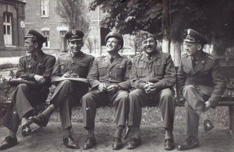 Przasnysz, oficerowie z OSL-4 Dęblin i 64 LPS, od lewej kpt. Ryszard Smyl, kpt. Jan Celek, kpt. Tadeusz Bilski, kpt. Stanisław Fechner, por Antoni Pietrucha, 1961